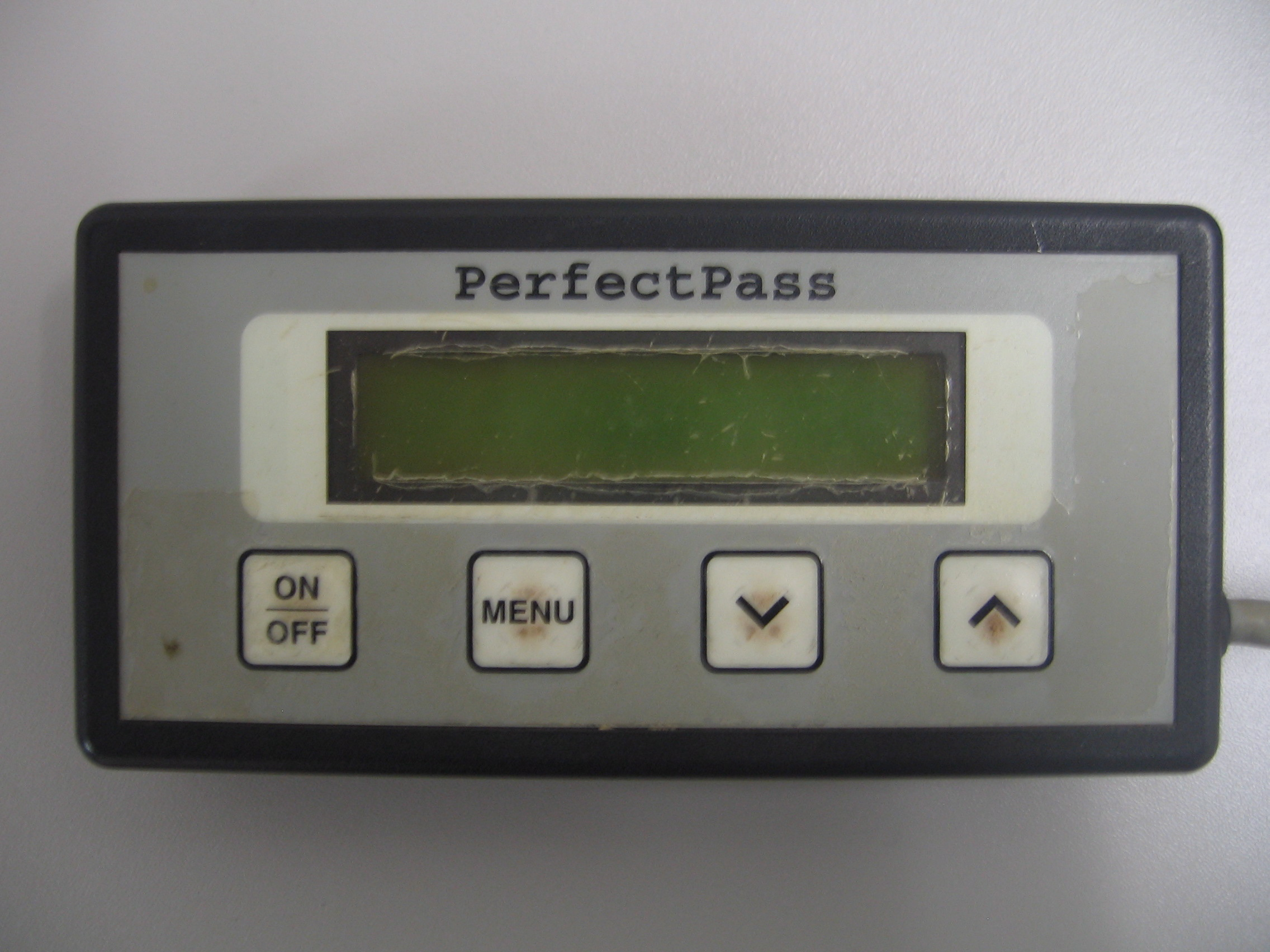 A picture of the 1st generation of the Perfect Pass system, a water ski boat speed control.